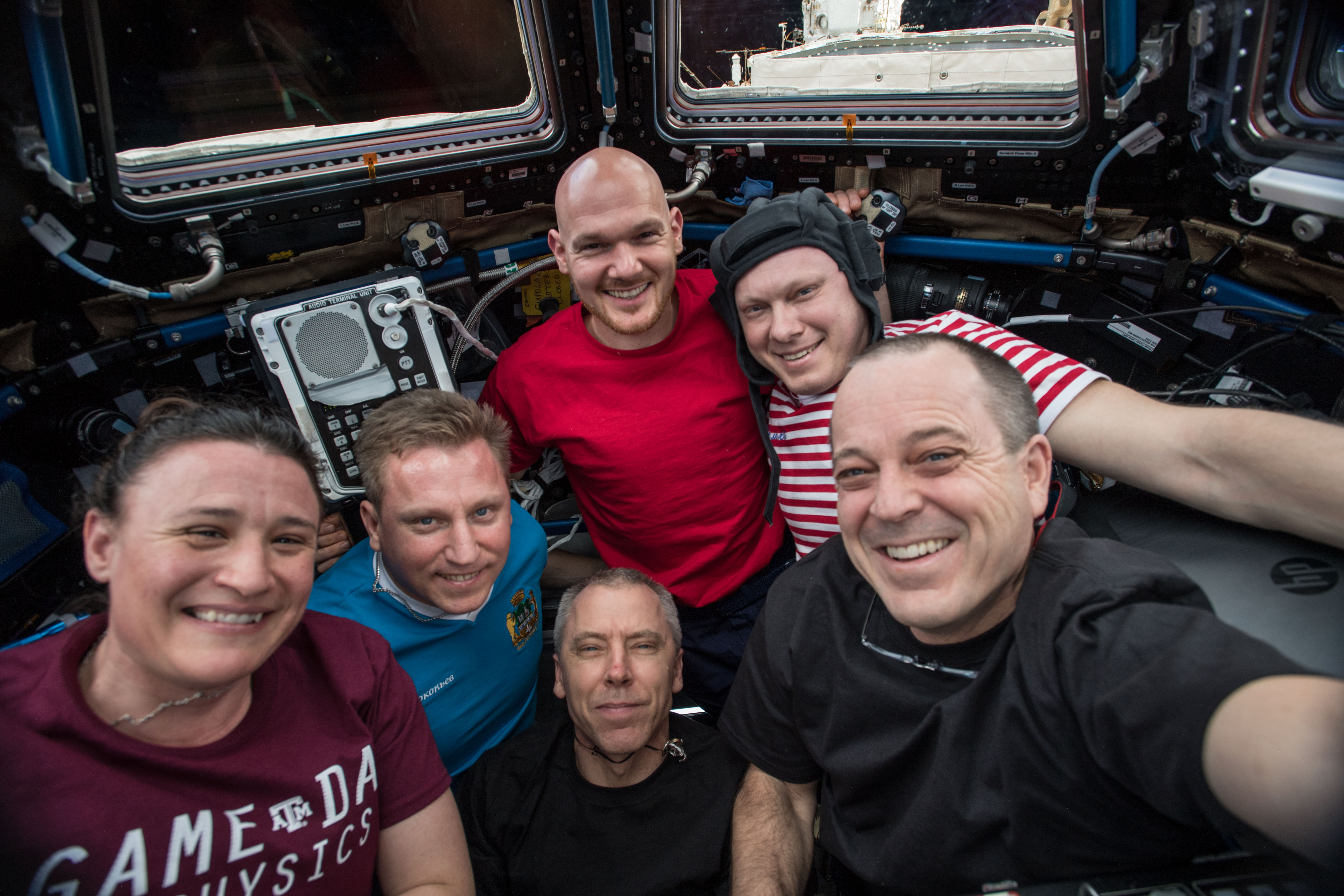 The entire six-member Expedition 56 crew gathers in the Cupola, the International Space Station's "window to the world," for a team portrait. In the front row, from left, are NASA astronauts Serena Auñon-Chancellor, Commander Drew Fuestel and Ricky Arnold. Behind them, from left, are Roscosmos cosmonauts Sergey Prokopyev and Oleg Artemyev. At the top of the group is astronaut Alexander Gerst of ESA (European Space Agency).